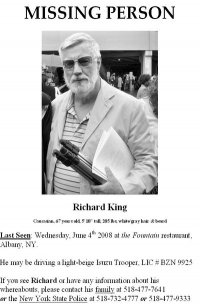 Missing Person